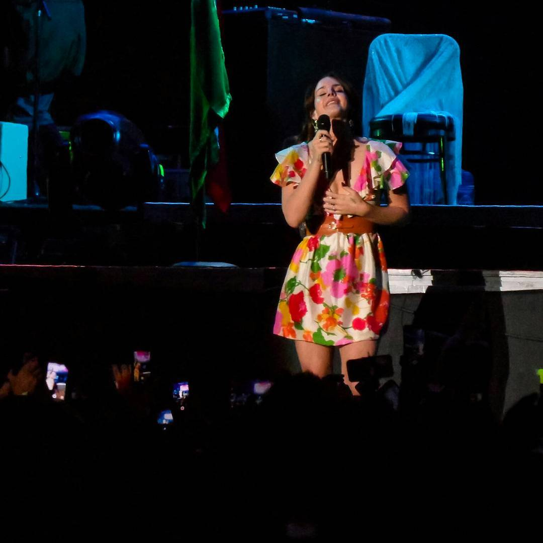 Lana Del Rey performing at the Corona Capital Festival in Mexico City, Mexico during November 2016.